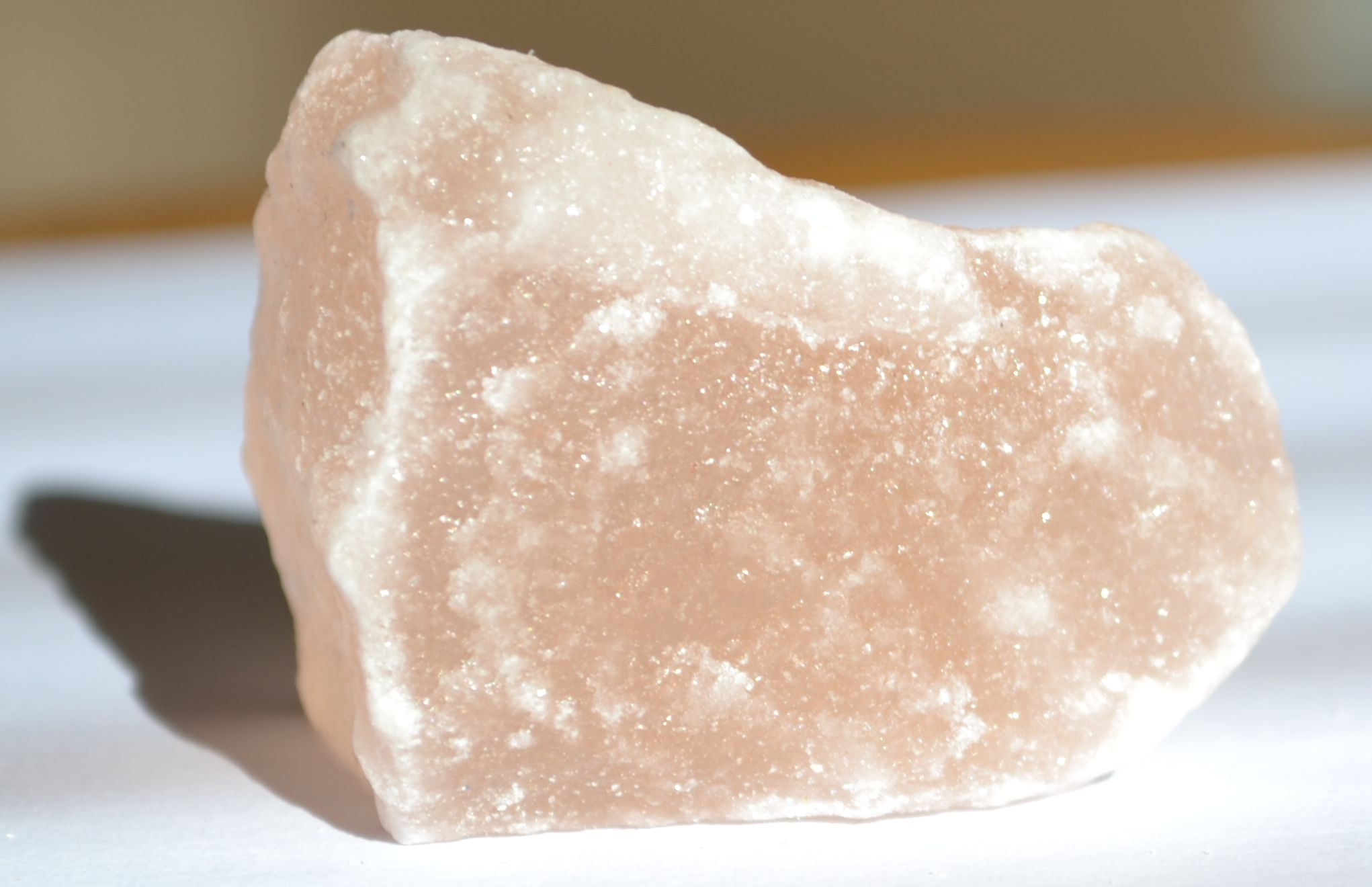 Light pink rock salt from Khewra Salt Mine.